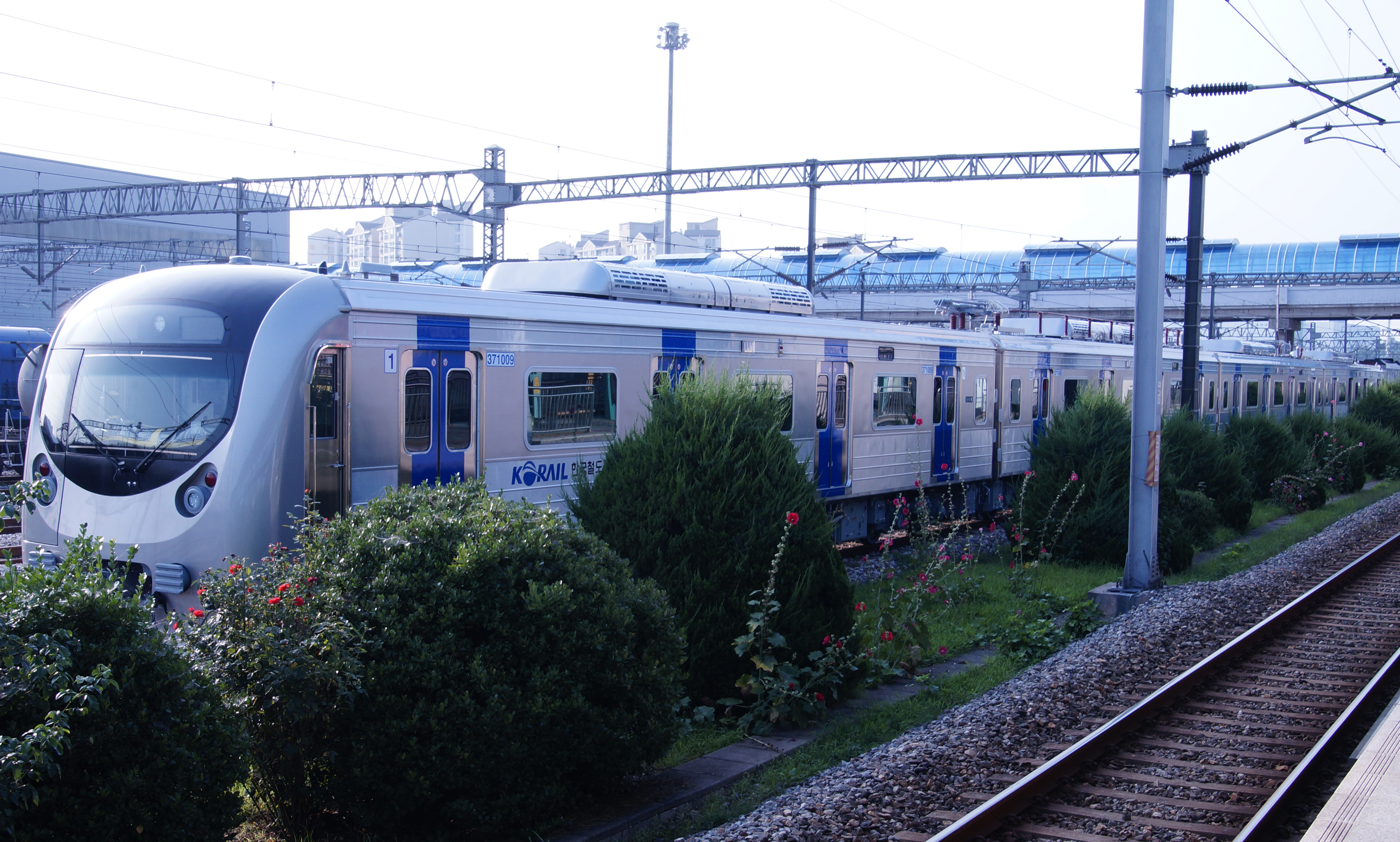 Korail Class 371000 train 371x09 being towed at Uiwang.